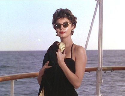 Screenshot of Ava Gardner from the trailer for the film The barefoot contessa.